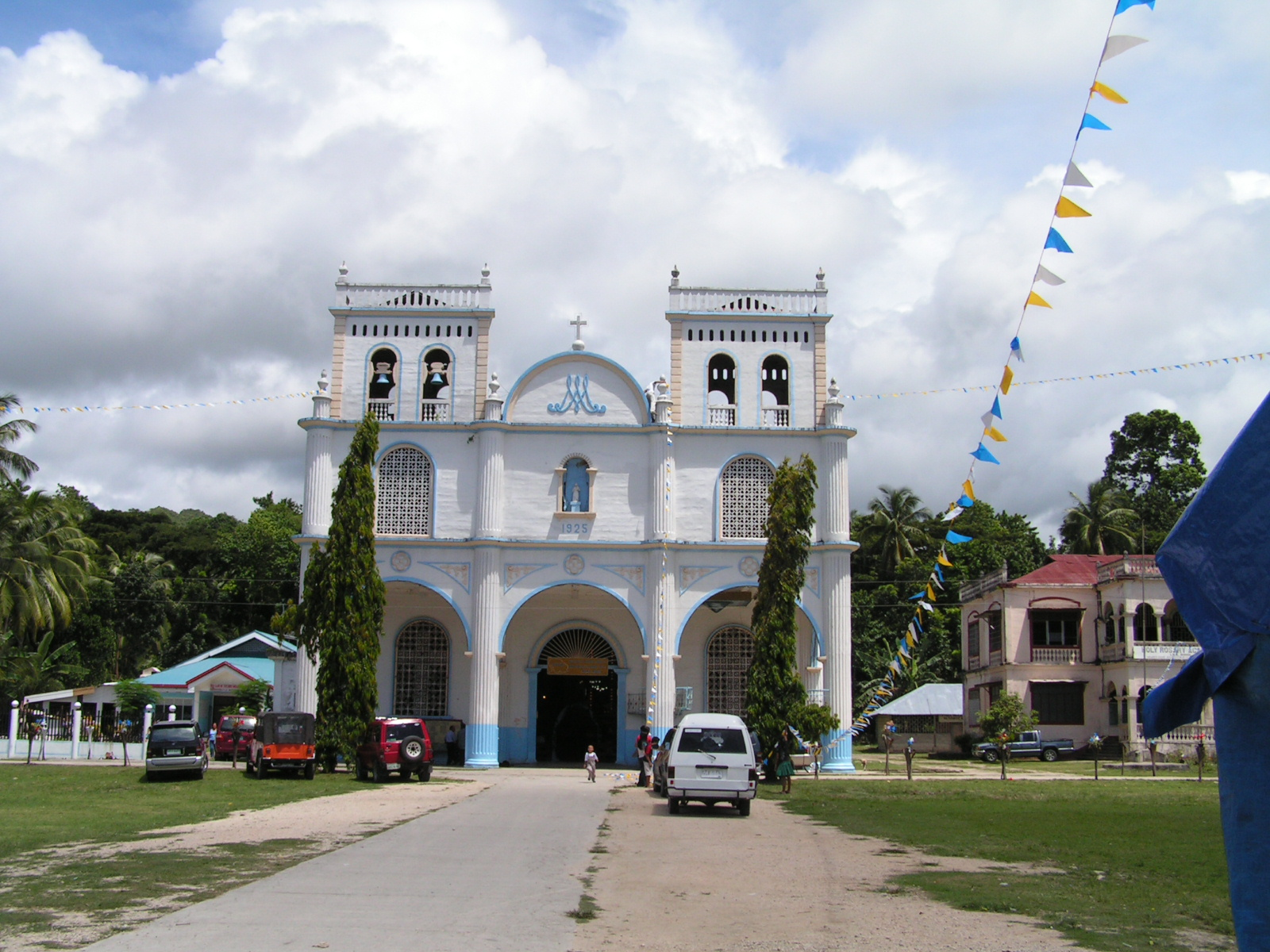 self-taken